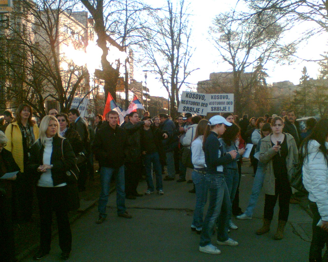 Demonstrators gathering before the government-organised protest meeting outside the old federal parliament building in Belgrade. This photo was taken on my Nokia phone.